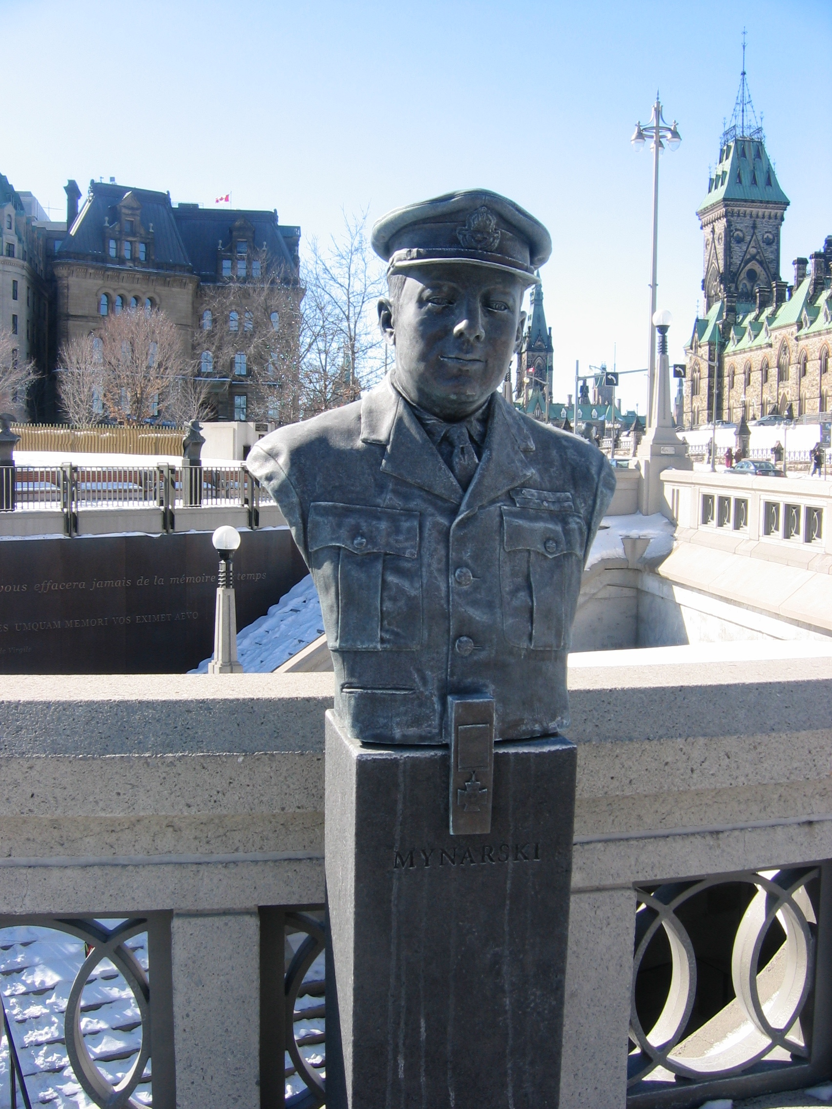 Andrew Mynarsky bust, Valiants Memorial, Ottawa.